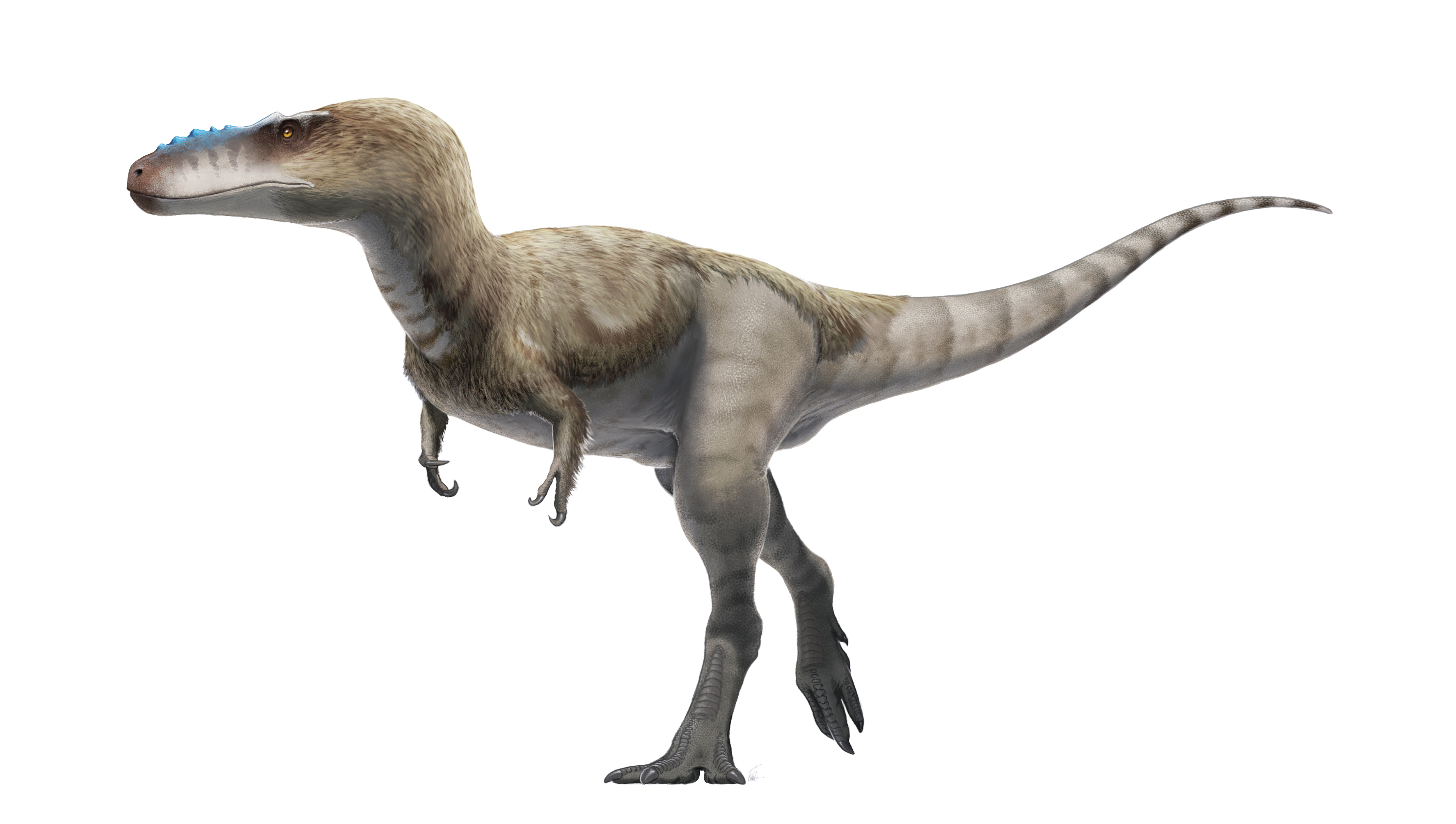 Alioramus remotus life restoration. Based on File:Alioramus_skeletal_steveoc.png; see sources therein.